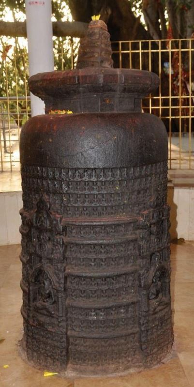 This is the Sahastrakoot Jinaya (1008 the Temple of Jain statues) which is now placed in another temple Bhadrakali in Itury (10th Tirthankar the birthplace of Lord Shitalnath). It is worshipped it by assuming the Sahasrara shivling.